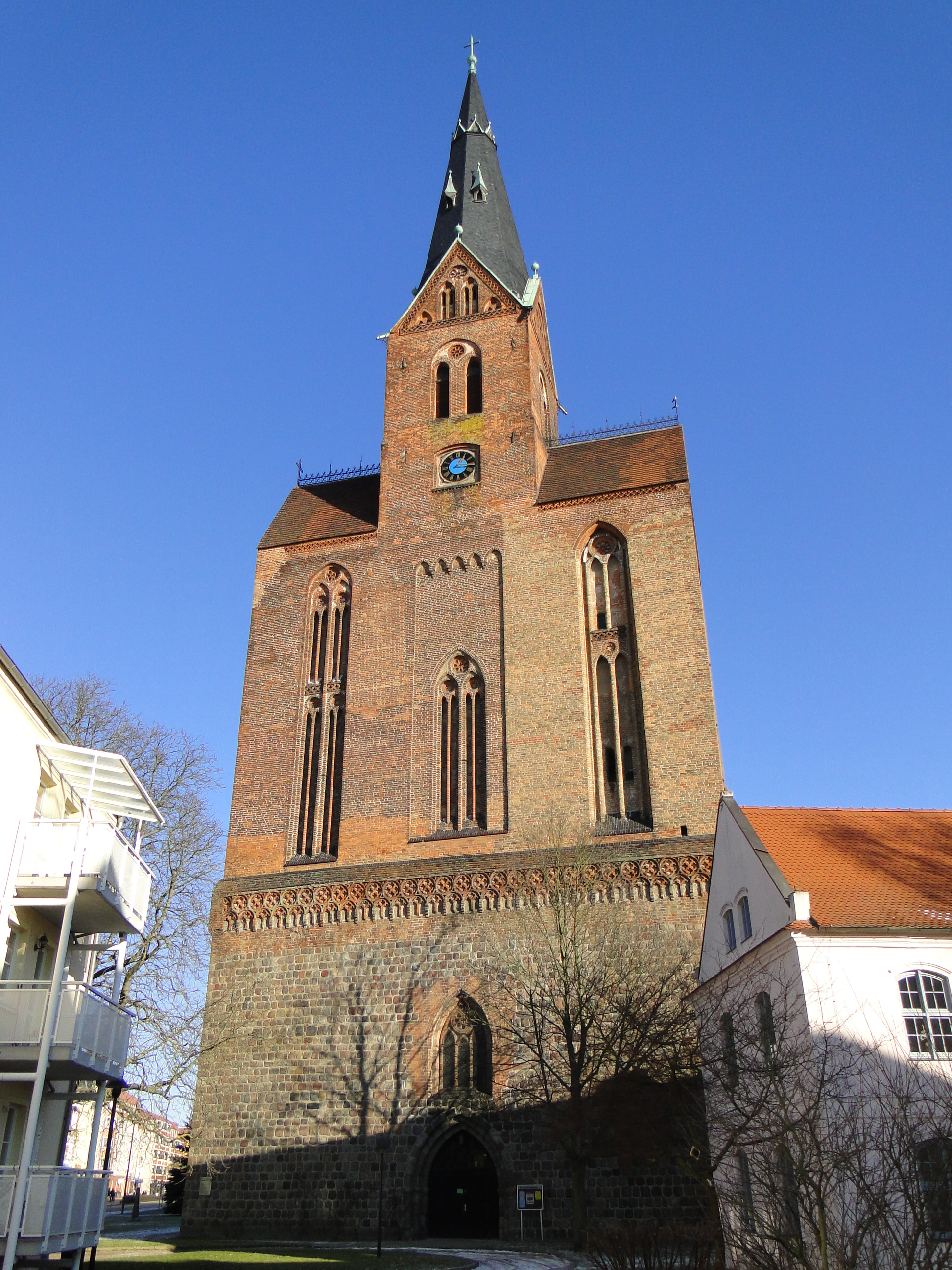 Church St. Marien in Friedland, district Mecklenburg-Strelitz, Mecklenburg-Vorpommern, Germany